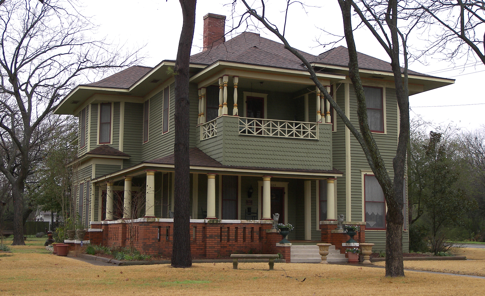 The Joiner-Long House located at 604 Prairie Av, Cleburne, Texas, United States. The building was listed on the National Register of Historic Places on June 23, 2003.